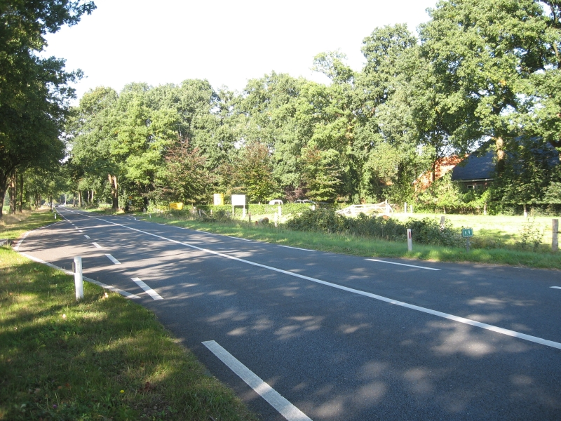 Dutch Provincial Road 736 near Ootmarsum